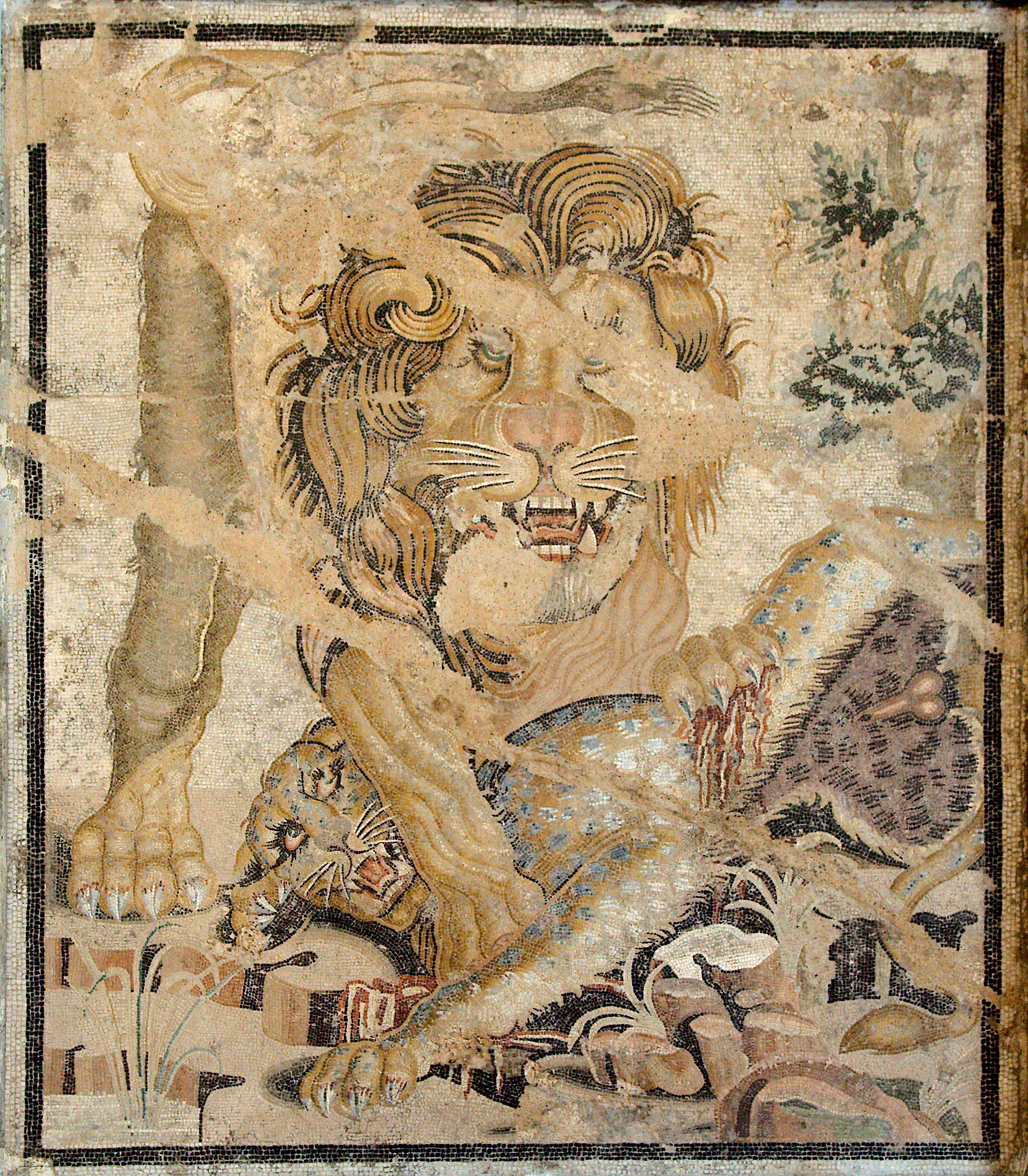 Mosaics from Pompeii (Casa delle colombe a mosaico, VIII.2.34) in the Museo Archeologico Nazionale in Naples (inv. 114282).